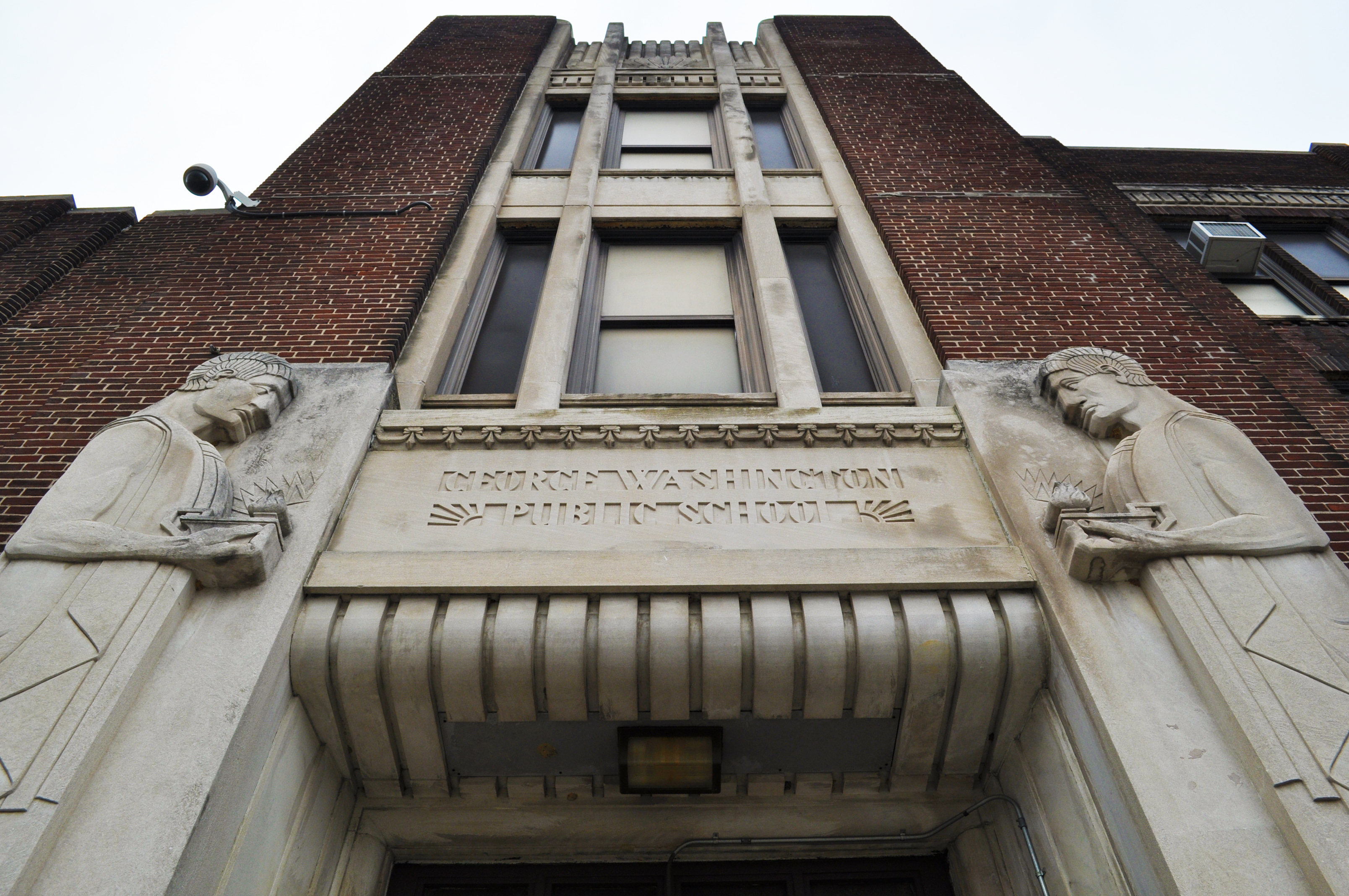 Vare-Washington Elementary School (formerly housing George Washington School) - 1198 S 5th St Philadelphia PA 19147